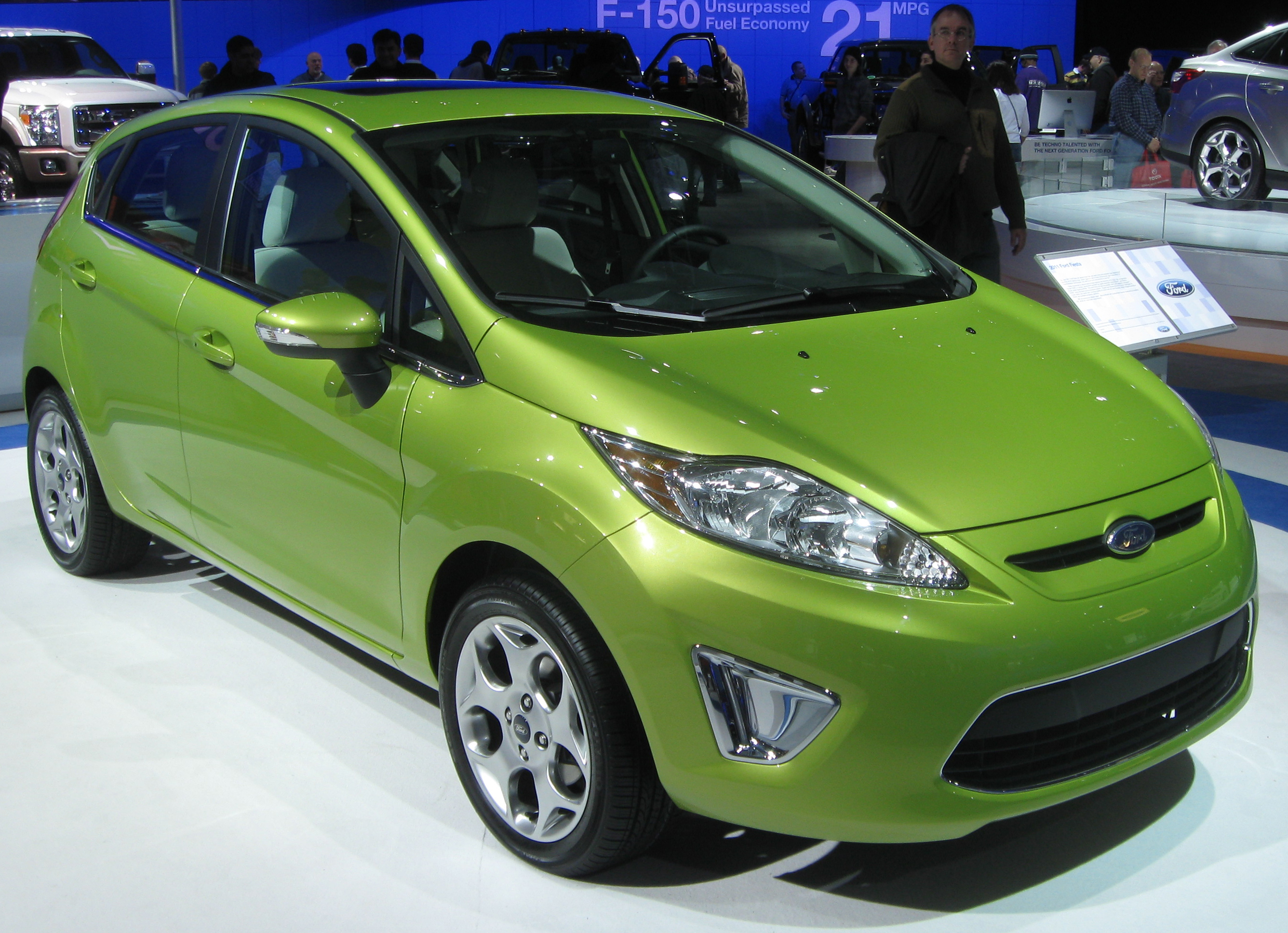 2011 Ford Fiesta photographed at the 2010 Washington Auto Show.